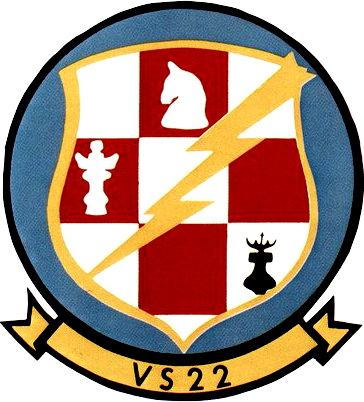 Insignia of the U.S. Navy Air Anti-Submarine Squadron 22 (VS-22) "Checkmates". VS-22 Lineage: established as VS-22 on 18 May 1960. Insignia approved: 19 April 1961.